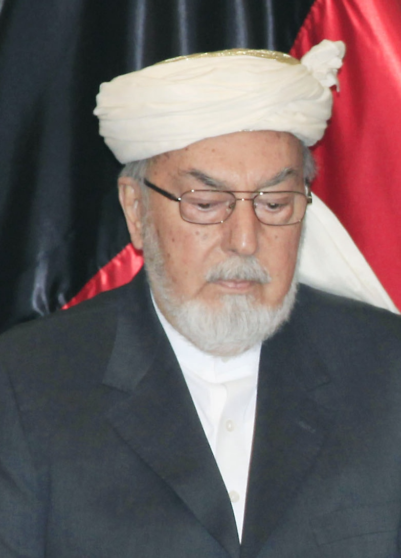 Pir Ahmed Gailani during the signing of the Bilateral Security Agreement (BSA) in Kabul, Afghanistan. (Photo by/U.S. State Department)